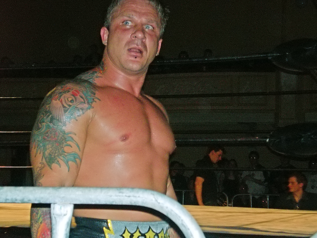 Pro wrestler Kid Kash @ Adelaide, South Australia 'International Assault' show on the 10th of August 2007